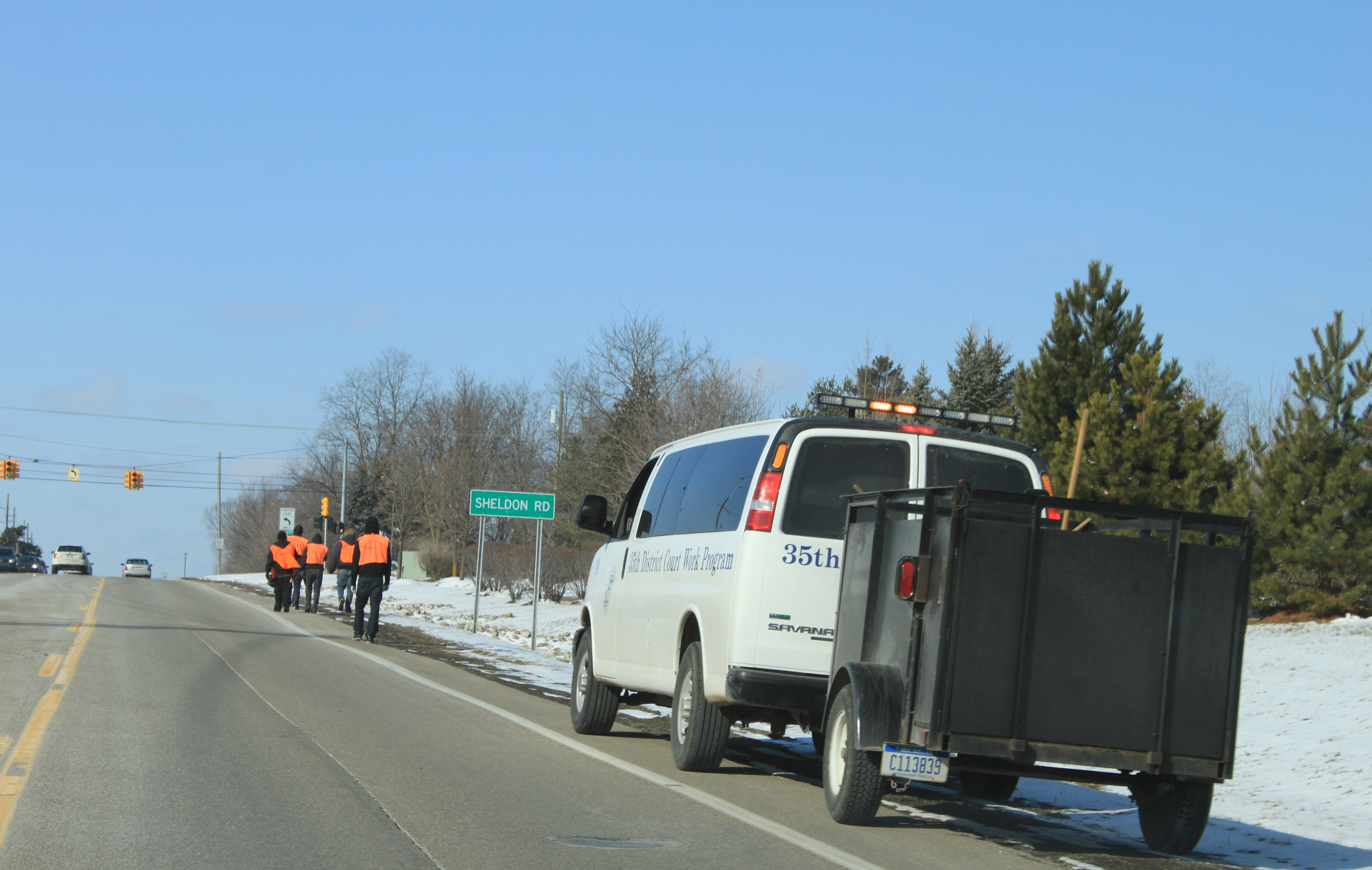 Community Service work detail for 35th District Court, on Six Mile Road just east of Sheldon Road, Northville, Michigan.